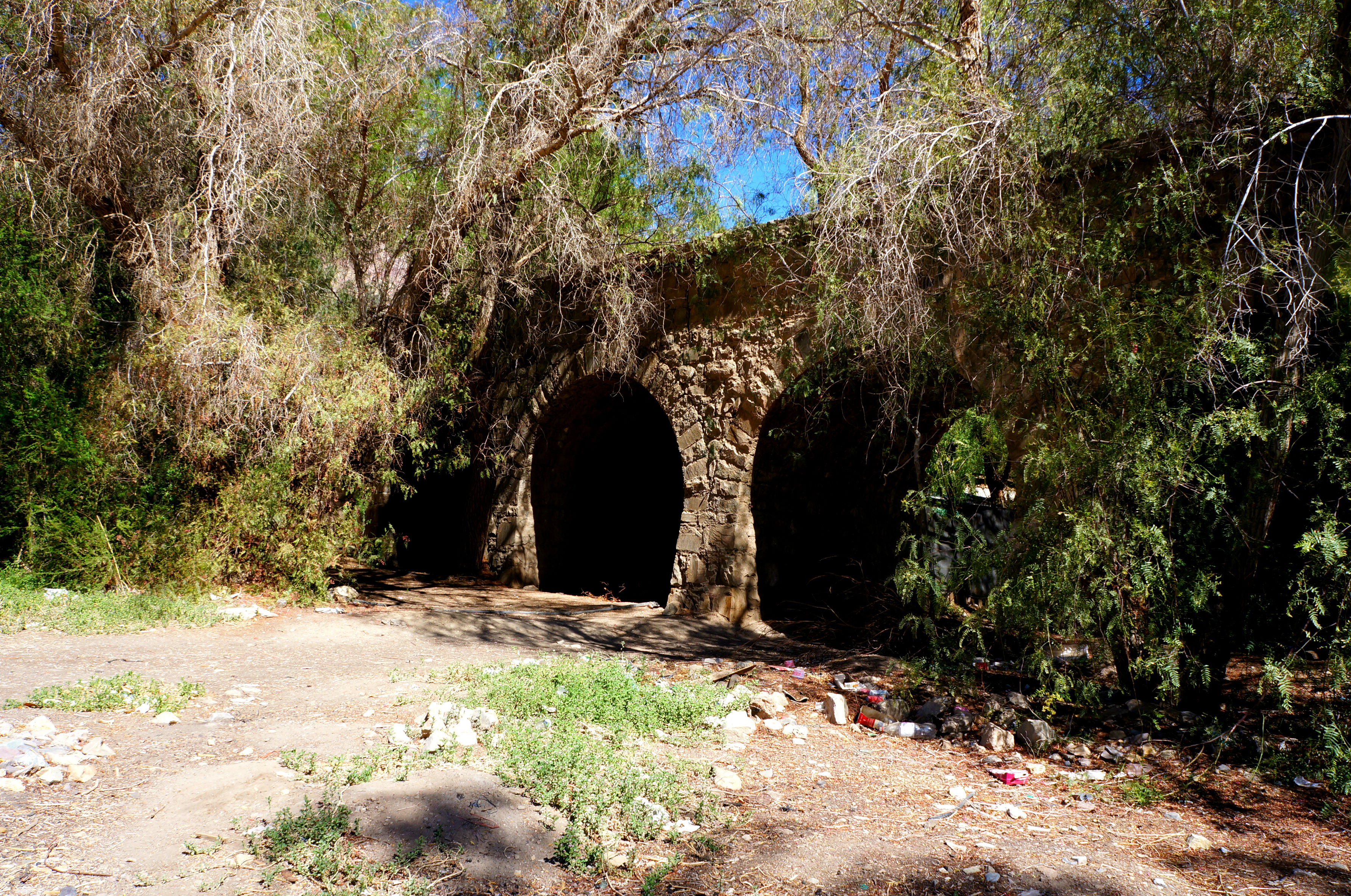 This is a photo of a national monument in Chile: 1355